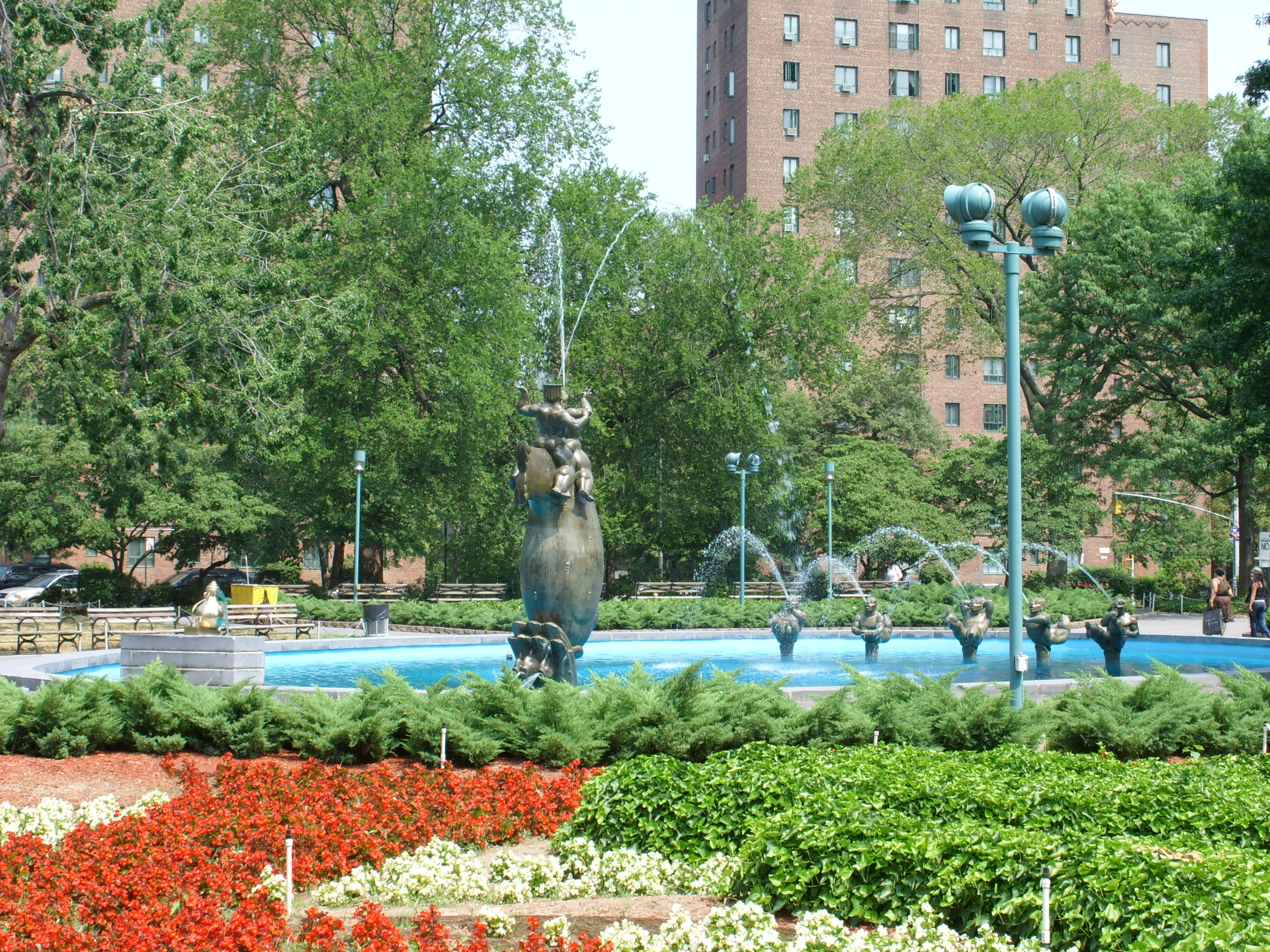 Fountain at Aileen B. Ryan Oval in Parkchester, Bronx.